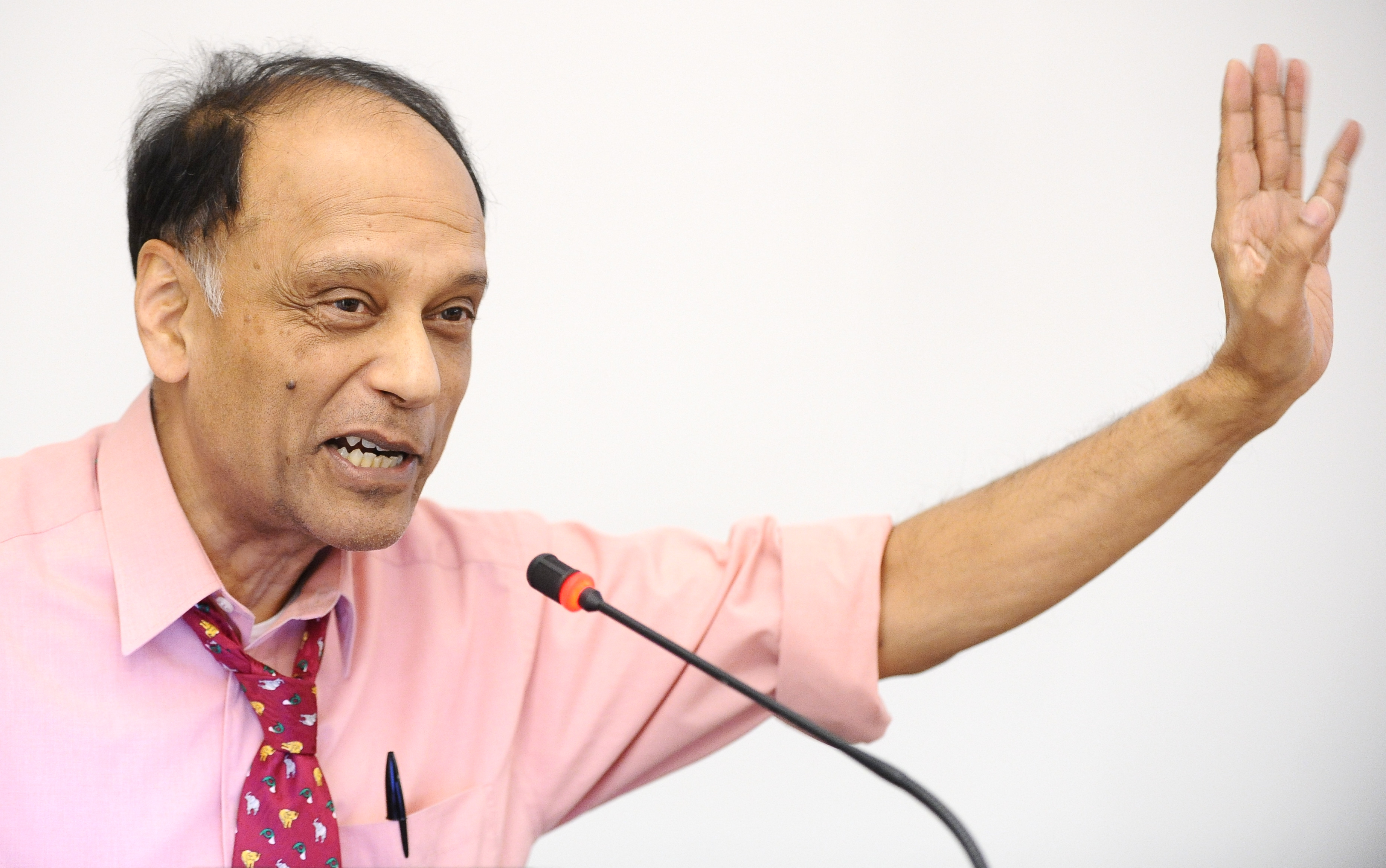 Lectio Magistralis Lecture by Sir Partha Dasgupta. Faculty of Economics, University of Trento.